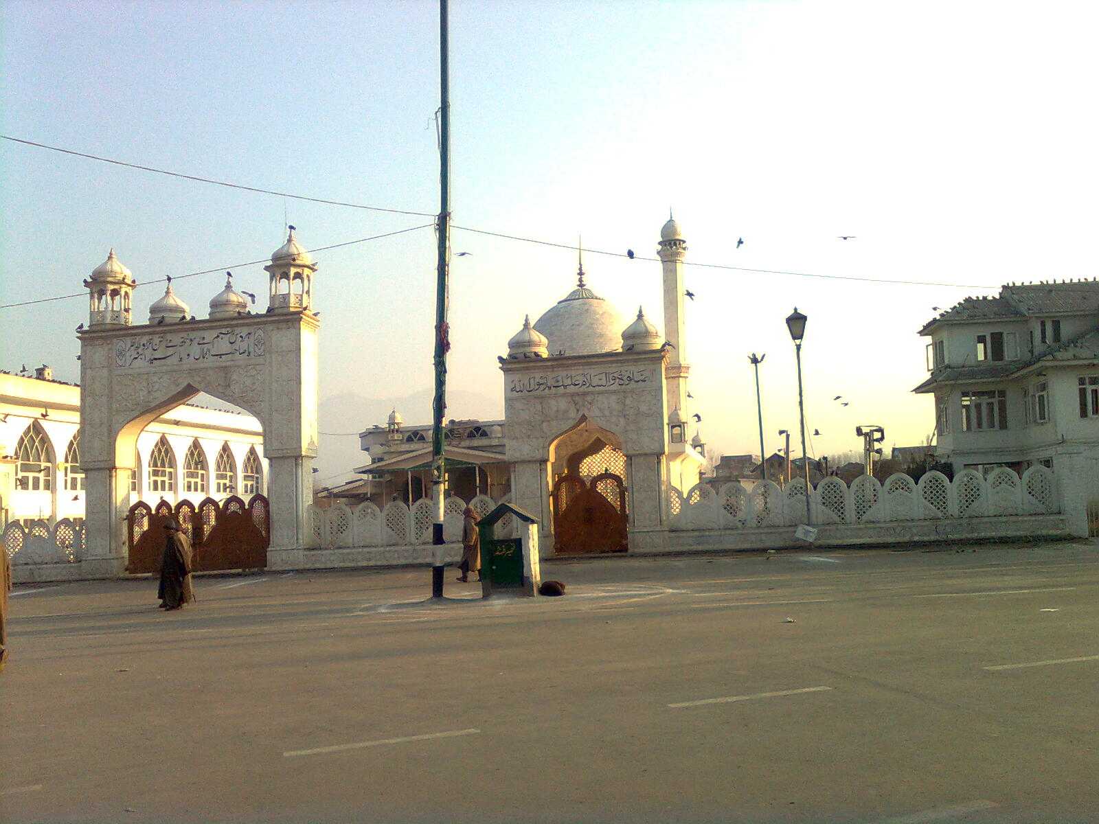 Hazarath Bal Shrine